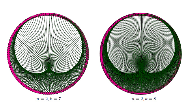 Undirected De Bruijn graphs for n=2, k=7 and n=2, k=8